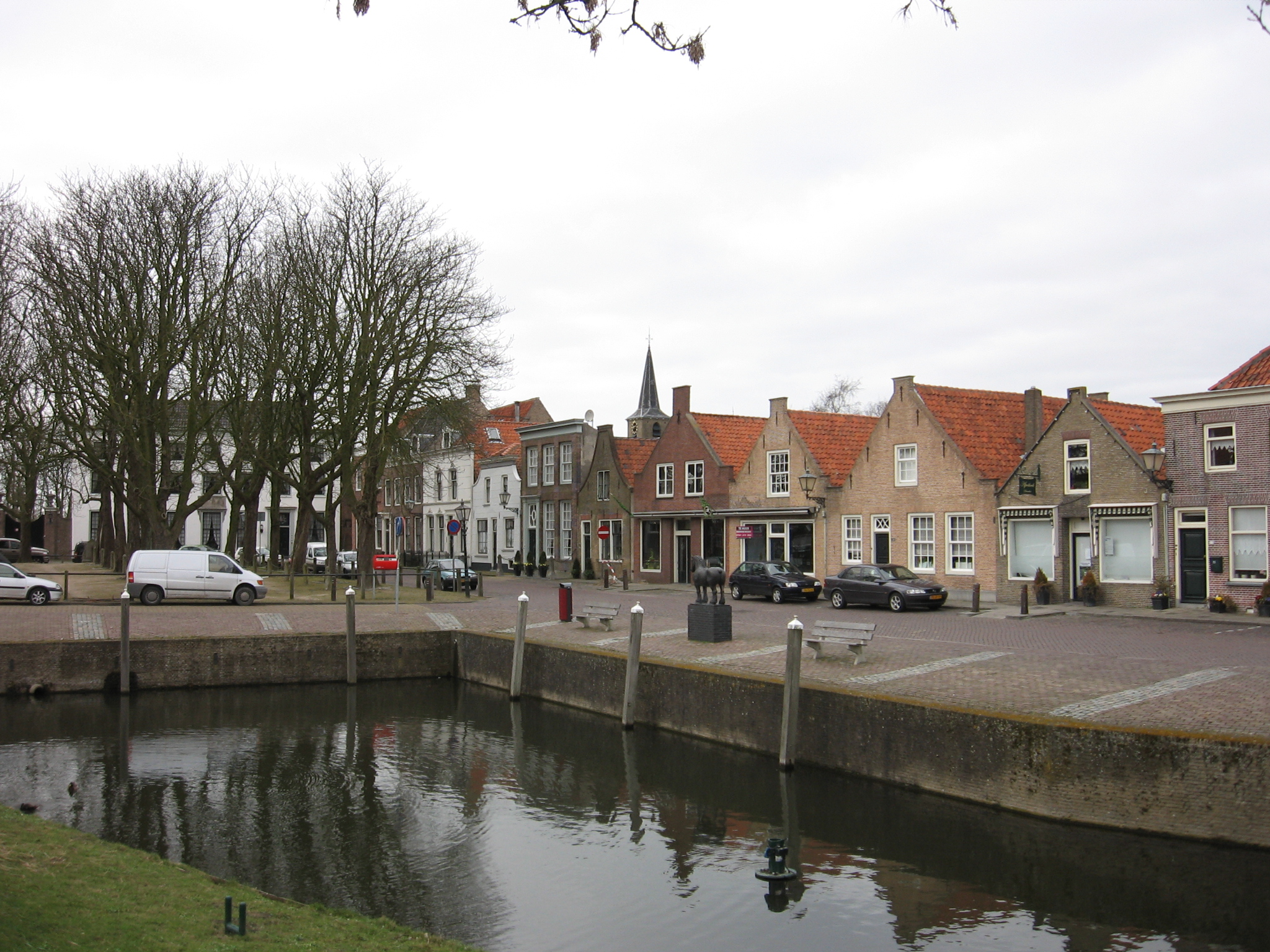 Heenvliet, markt This is an image of rijksmonument number 9396 This is an image of rijksmonument number 9397